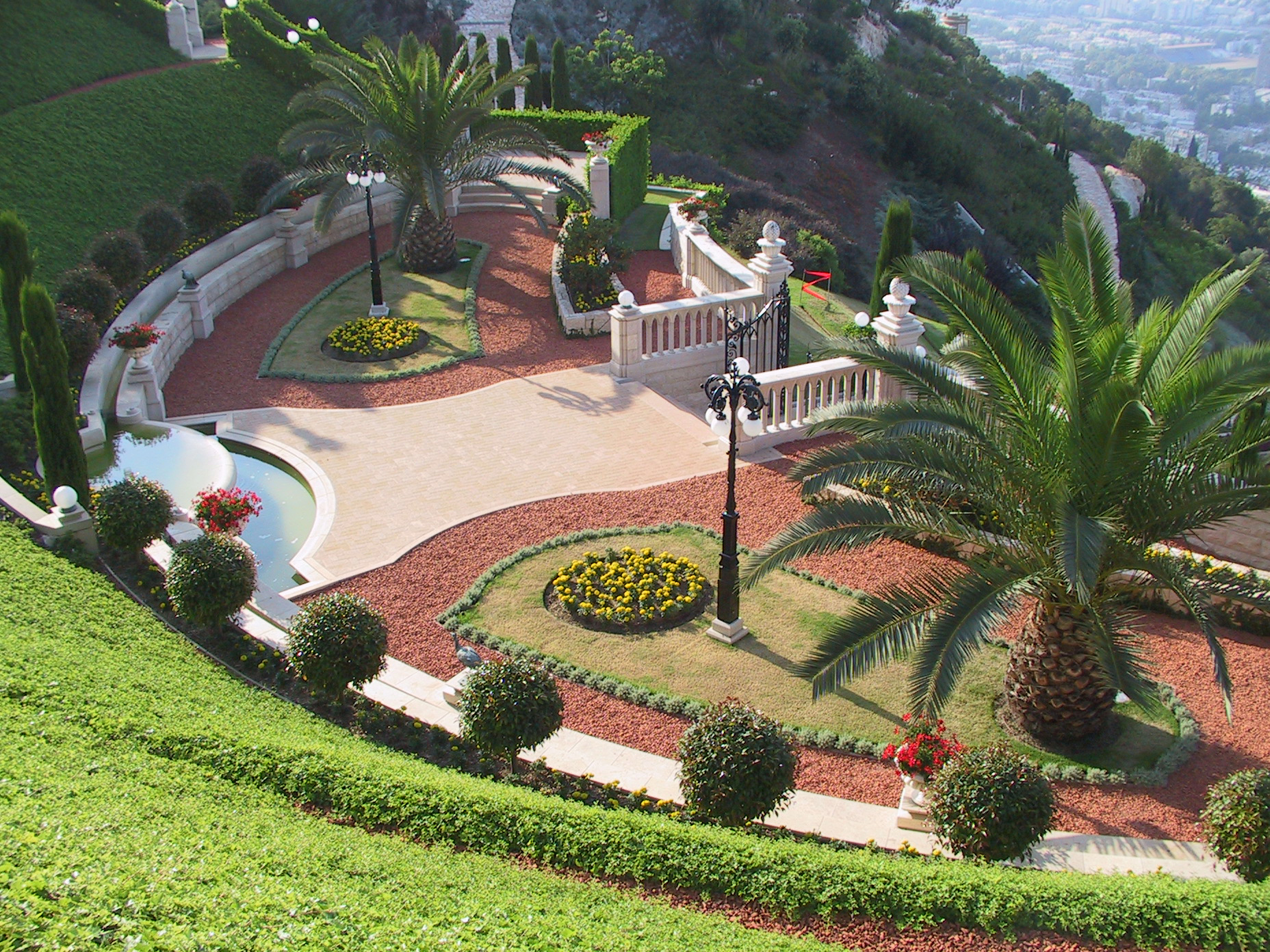 Bahai Gardens, Haifa